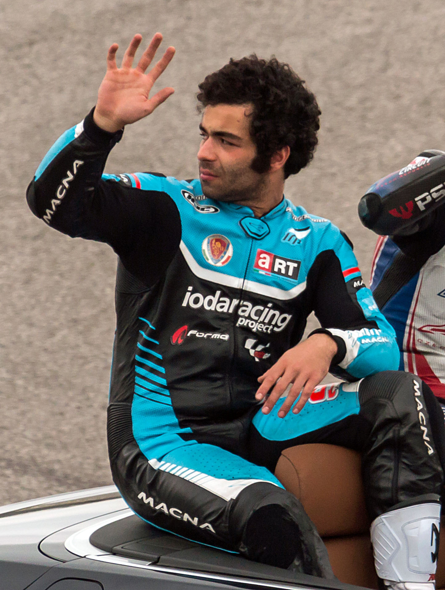 Italian motorcycle road racer Danilo Petrucci at the 2014 Grand Prix of the Americas.